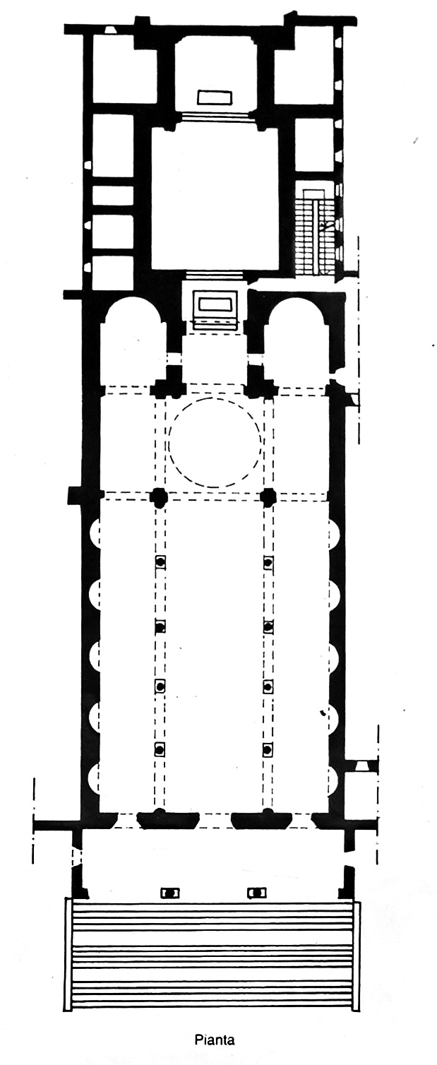 Santa Maria della Quercia (Viterbo), floor plan